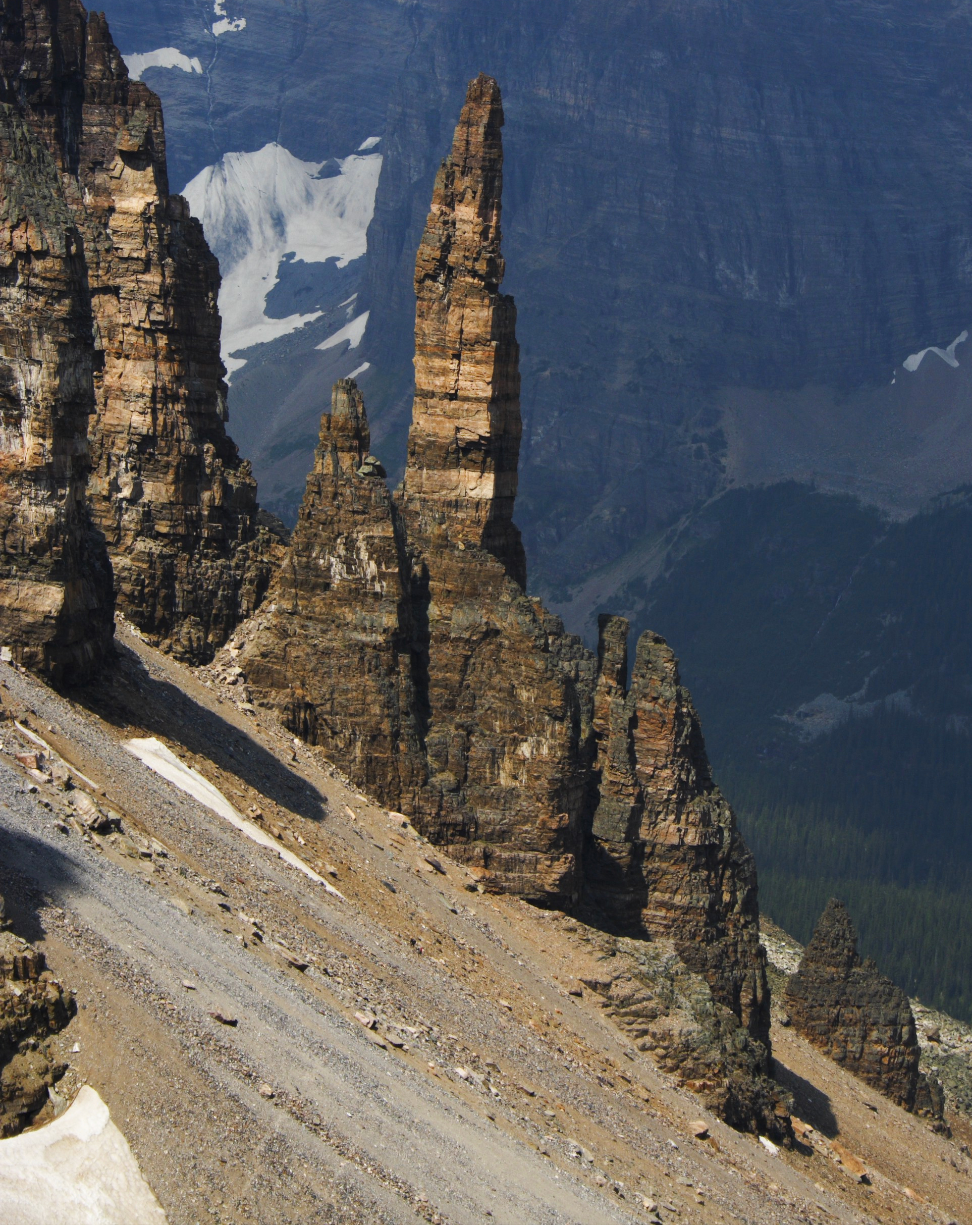 The Grand Sentinel on Pinnacle Mountain in Banff National Park, Canada